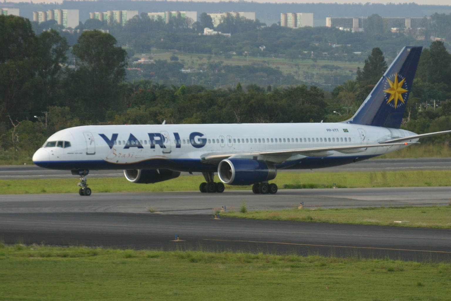 At Brasilia